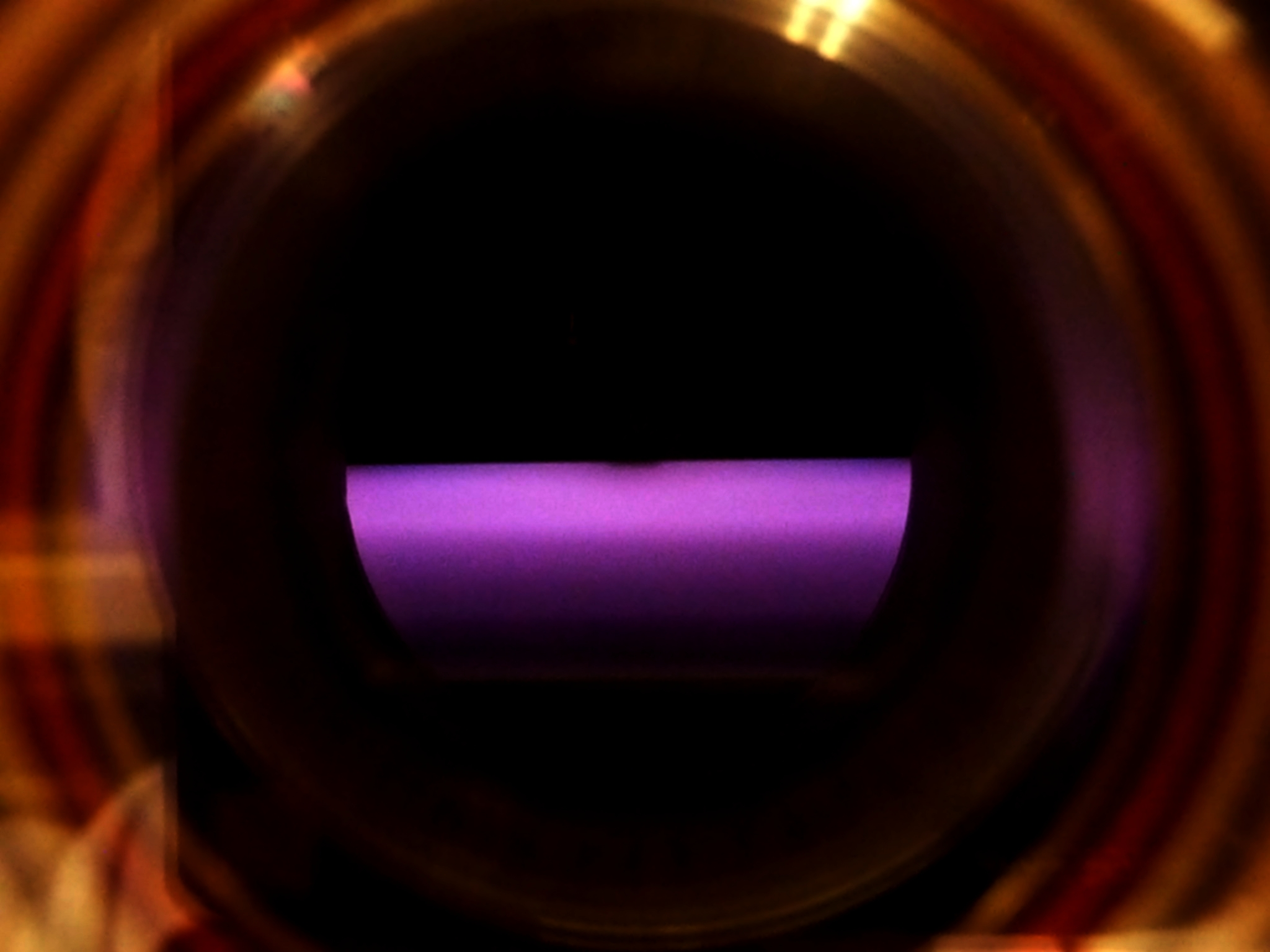 PLASMA EN INSTALACIÓN PECVD INAOE, MÉXICO